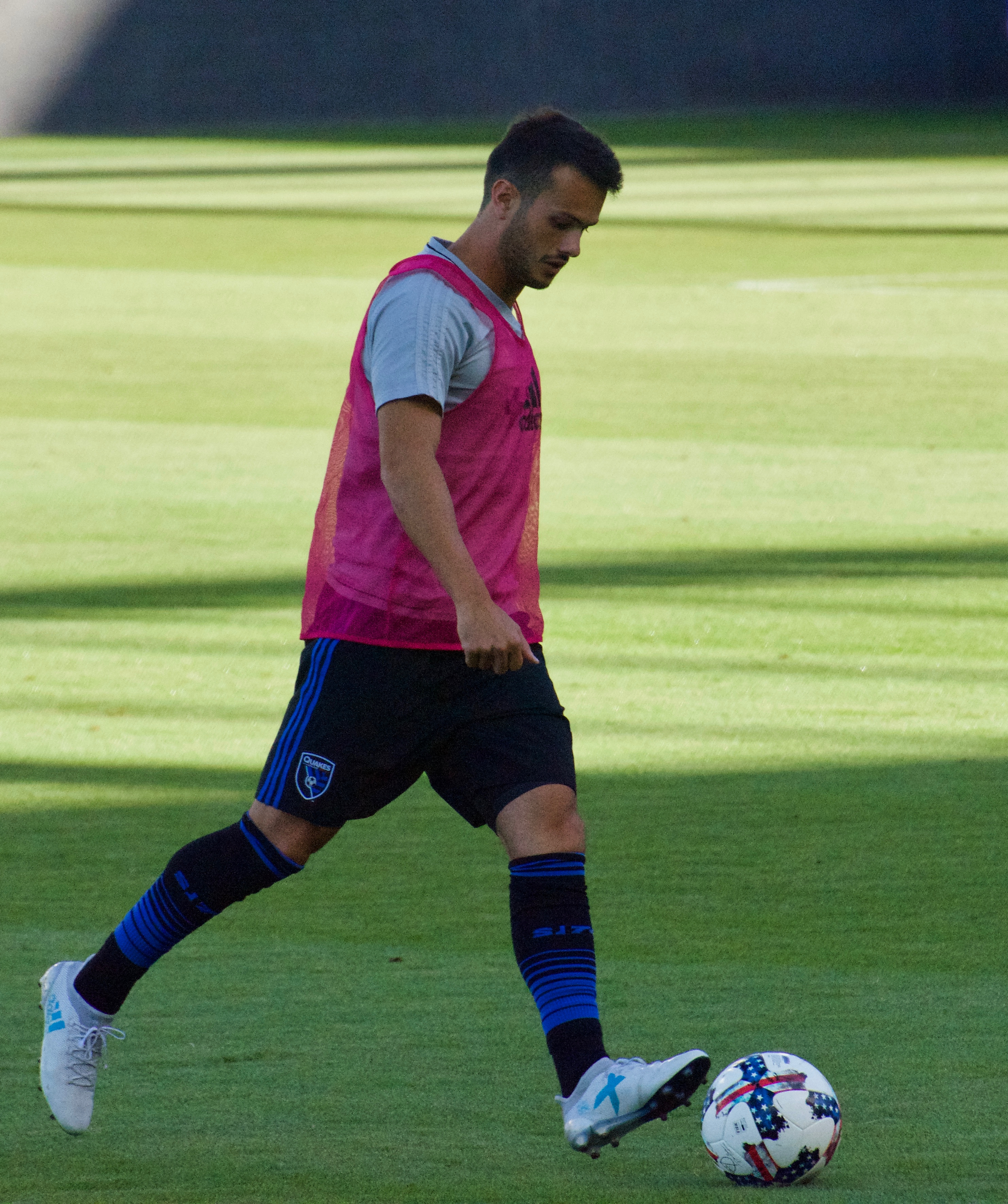 Vako Qazaishvili of the San Jose Earthquakes warms up at halftime. Avaya Stadium, 29 July 2017.